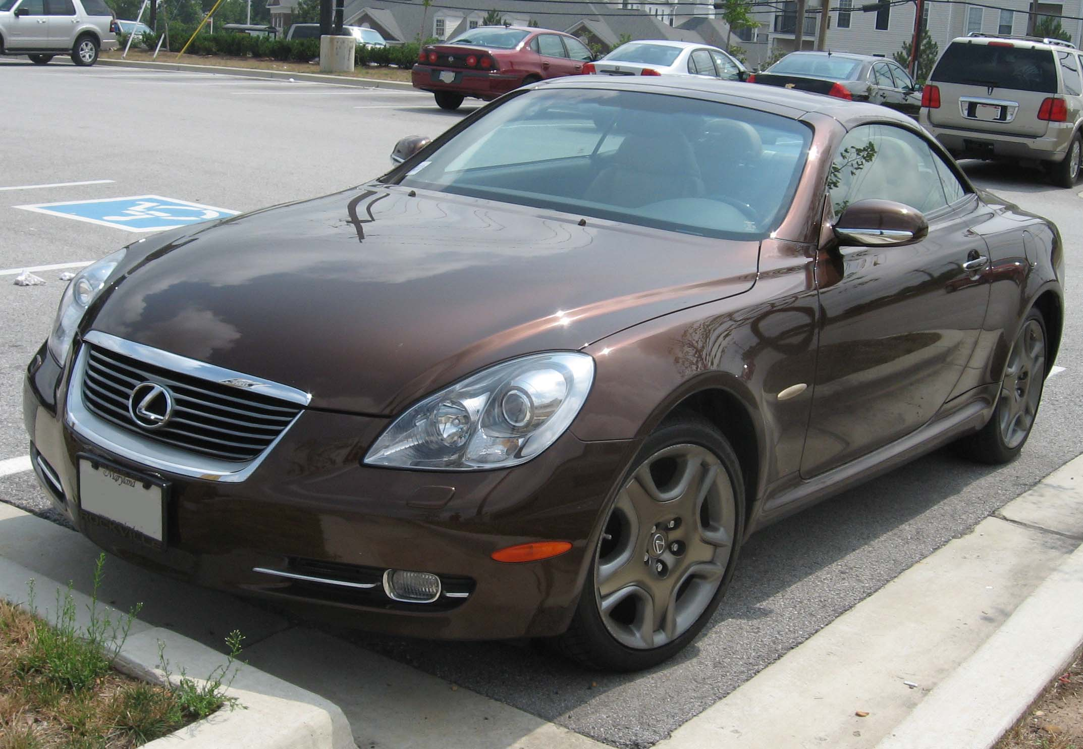 2006-2007 Lexus SC photographed in USA.